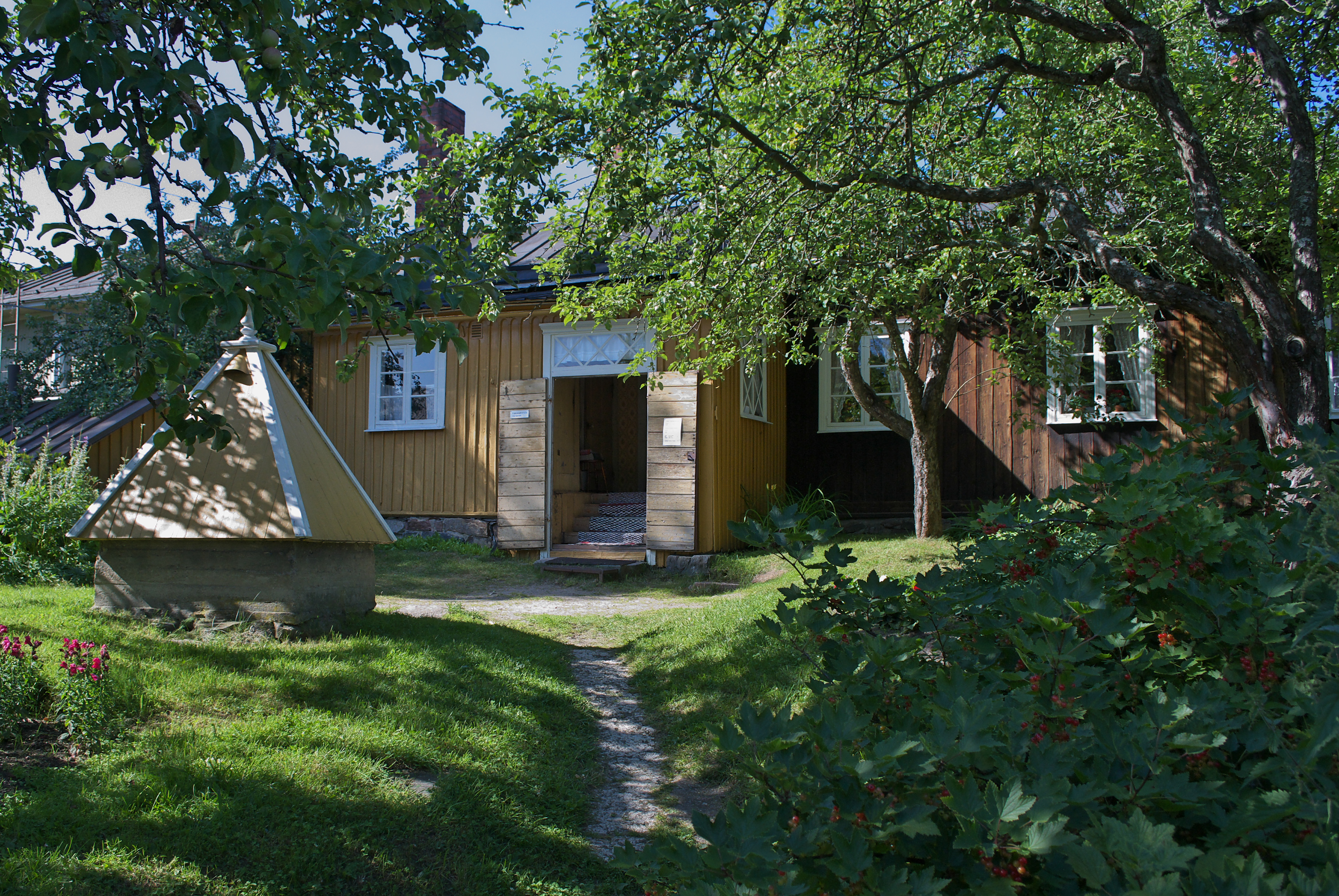 Kirsti museum buildings in Old Rauma